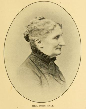 Wife of Rev. Dr John Hall, Pastor of Fifth Ave. Presbyterian Church